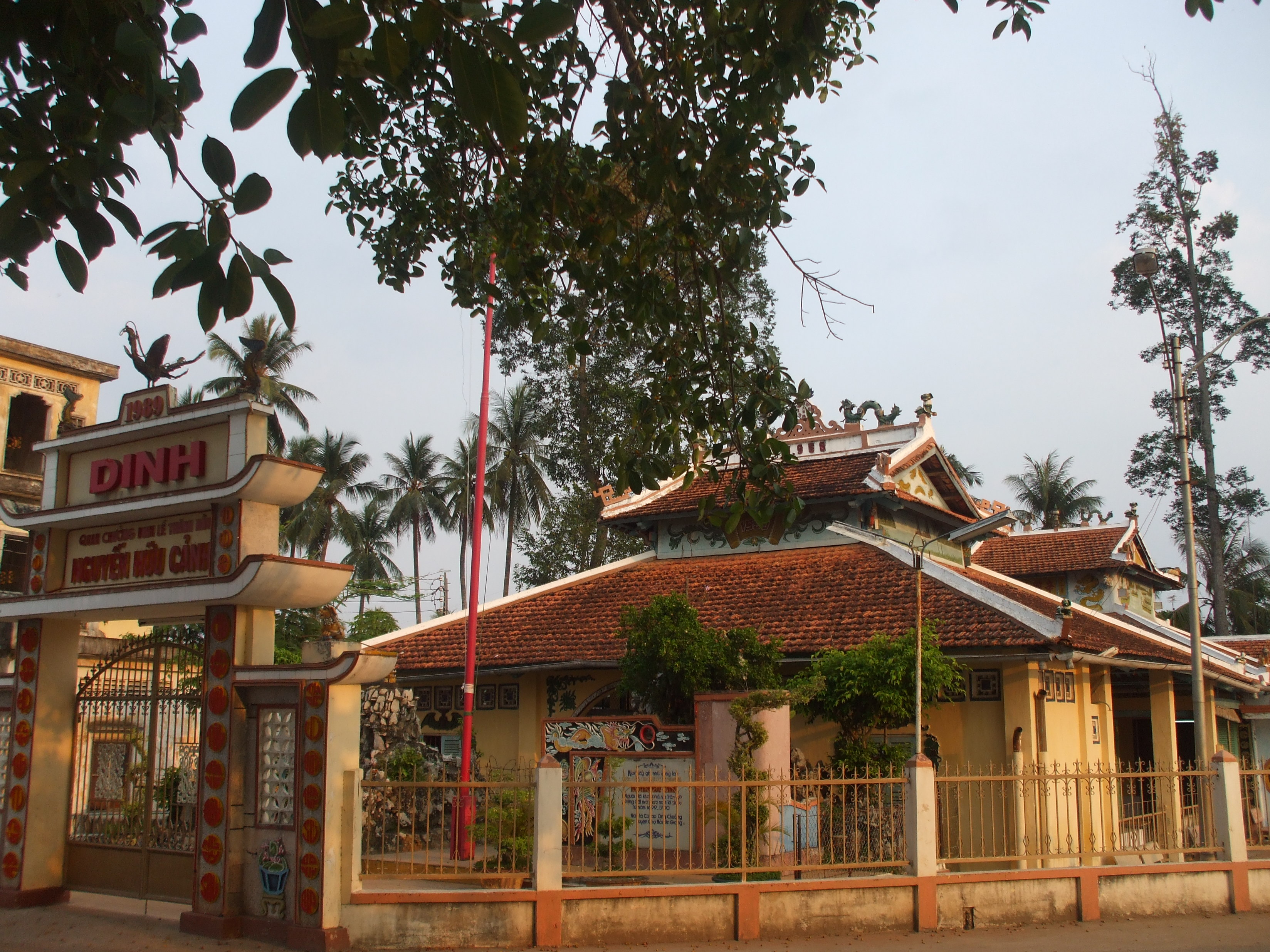 Temple to Nguyễn Hữu Cảnh in Chợ Mới town, An Giang province, Vietnam